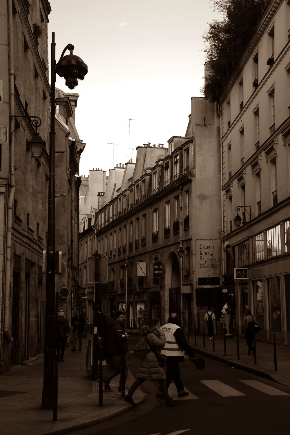 Sepia photograph of a random street in Paris.